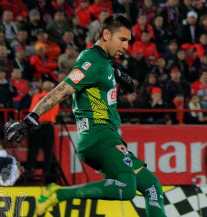 Monterrey player Jonathan Orozco